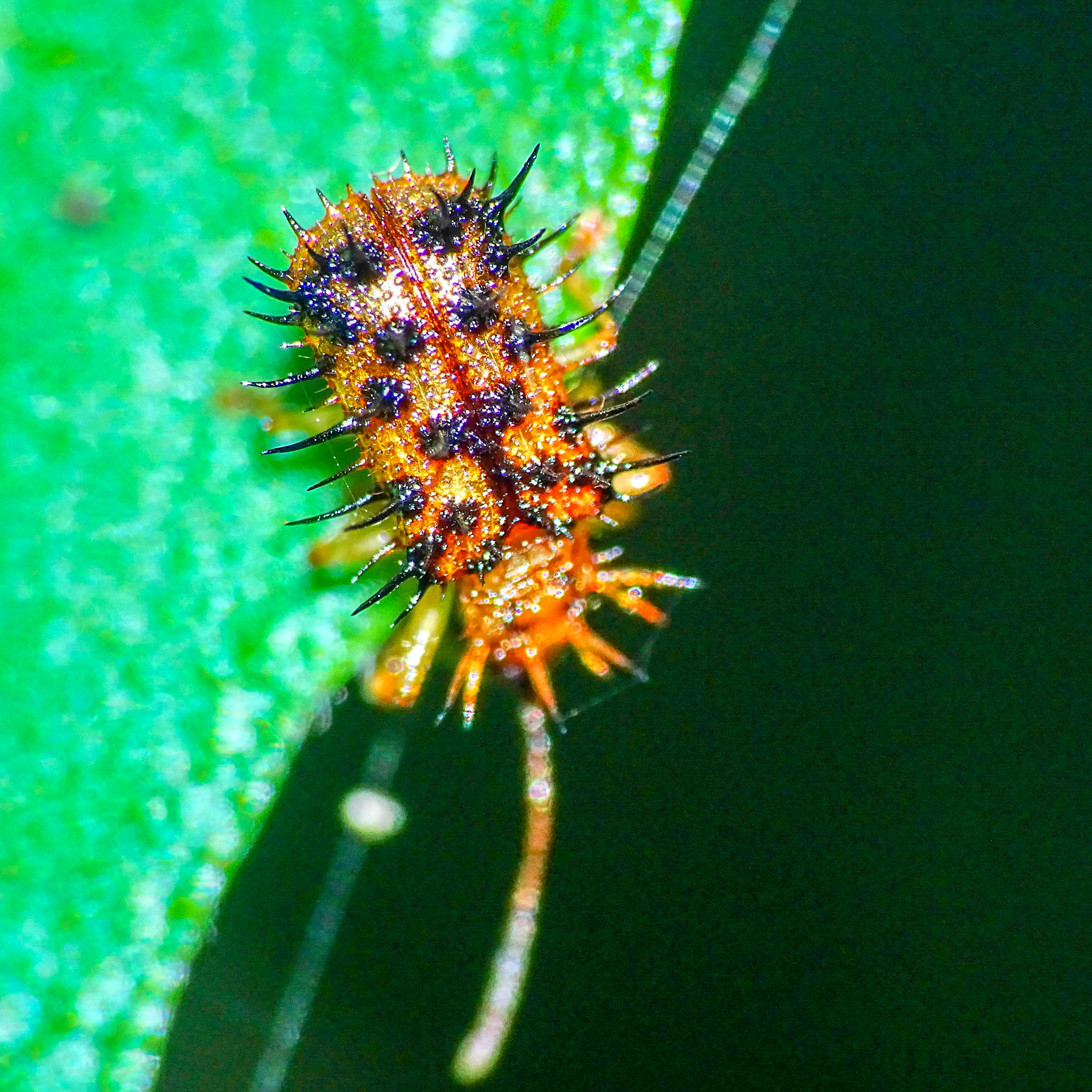 Dactylispa sp., Chrysomelidae. From Ezhupunna